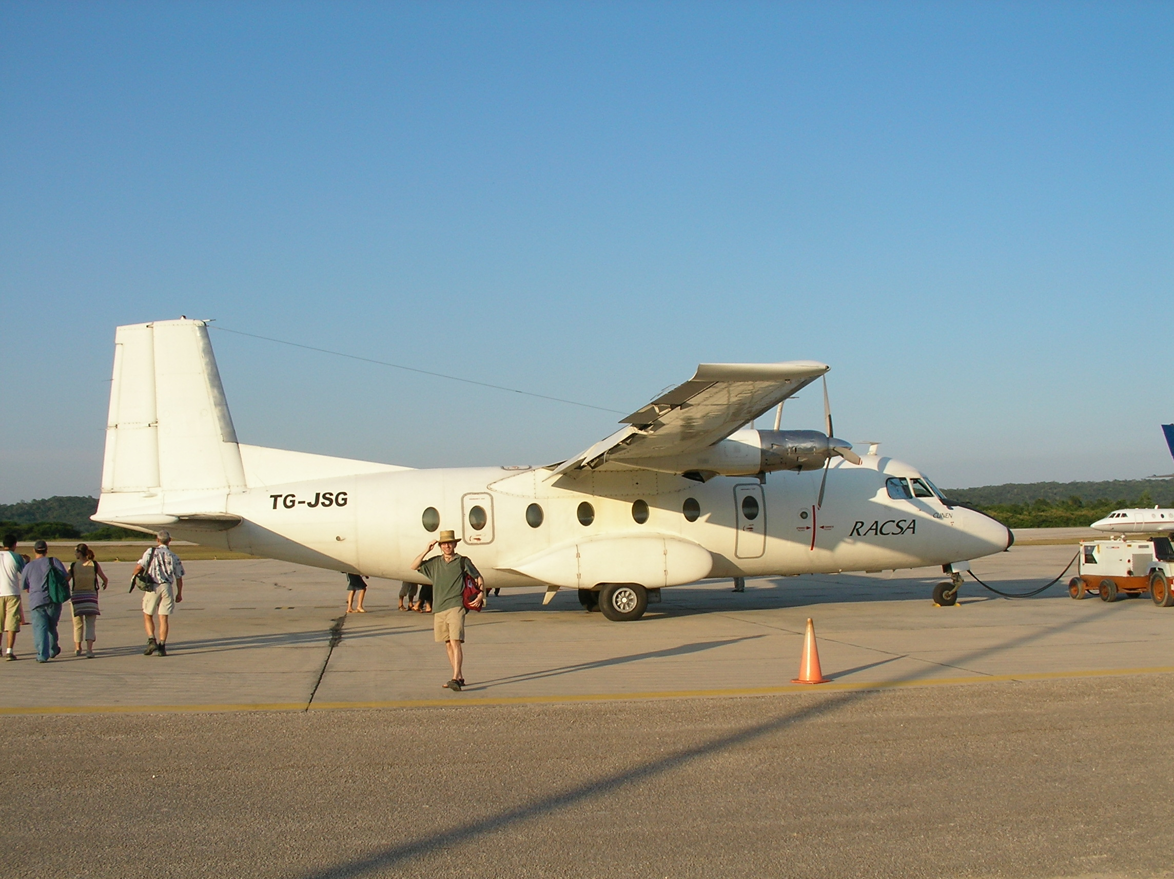 A Nord 262 spotted in service in Guatemala in November 2004 by Daniel H. Schumann.